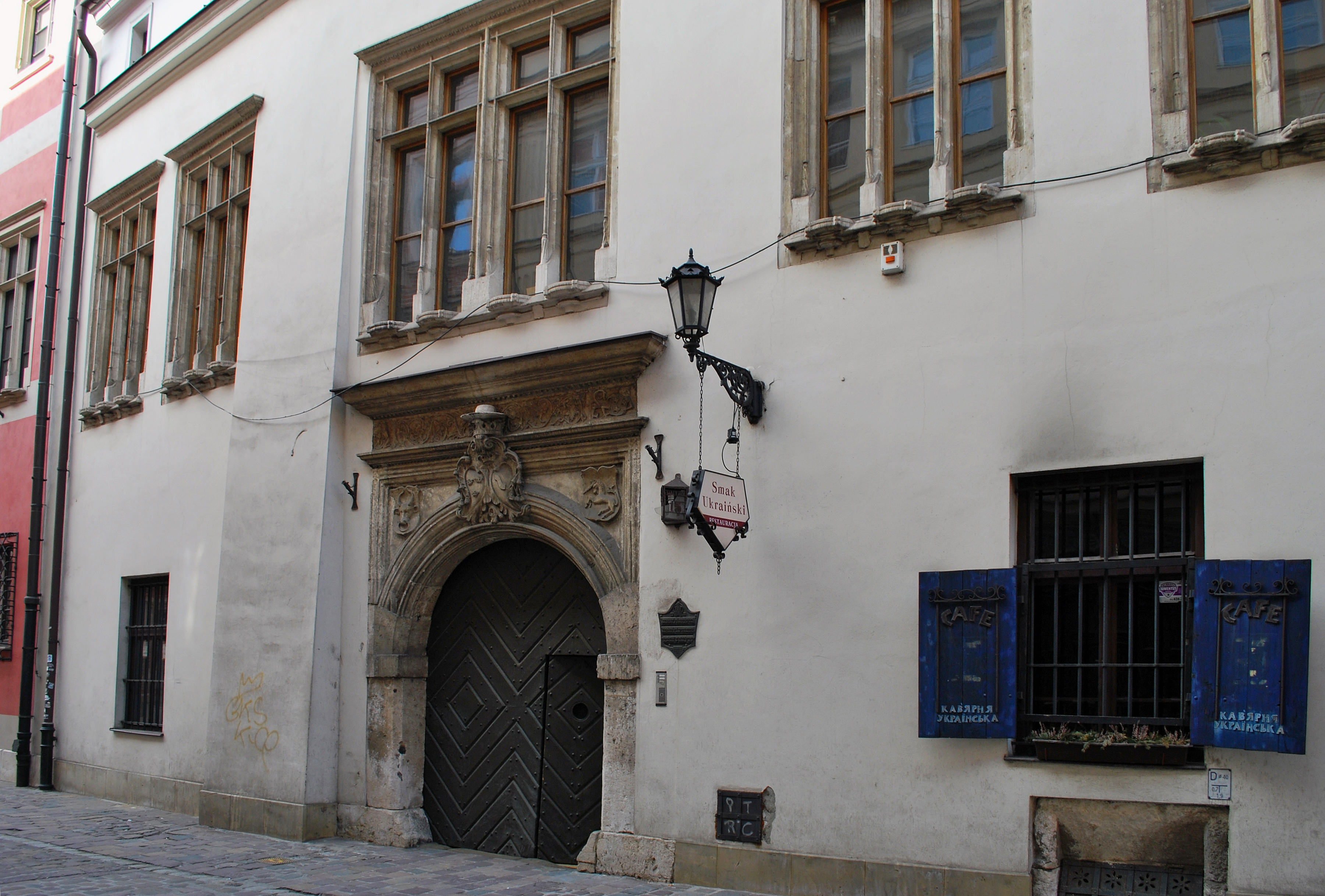 House, 15 Kanonicza street, Old Town, Krakow, Poland